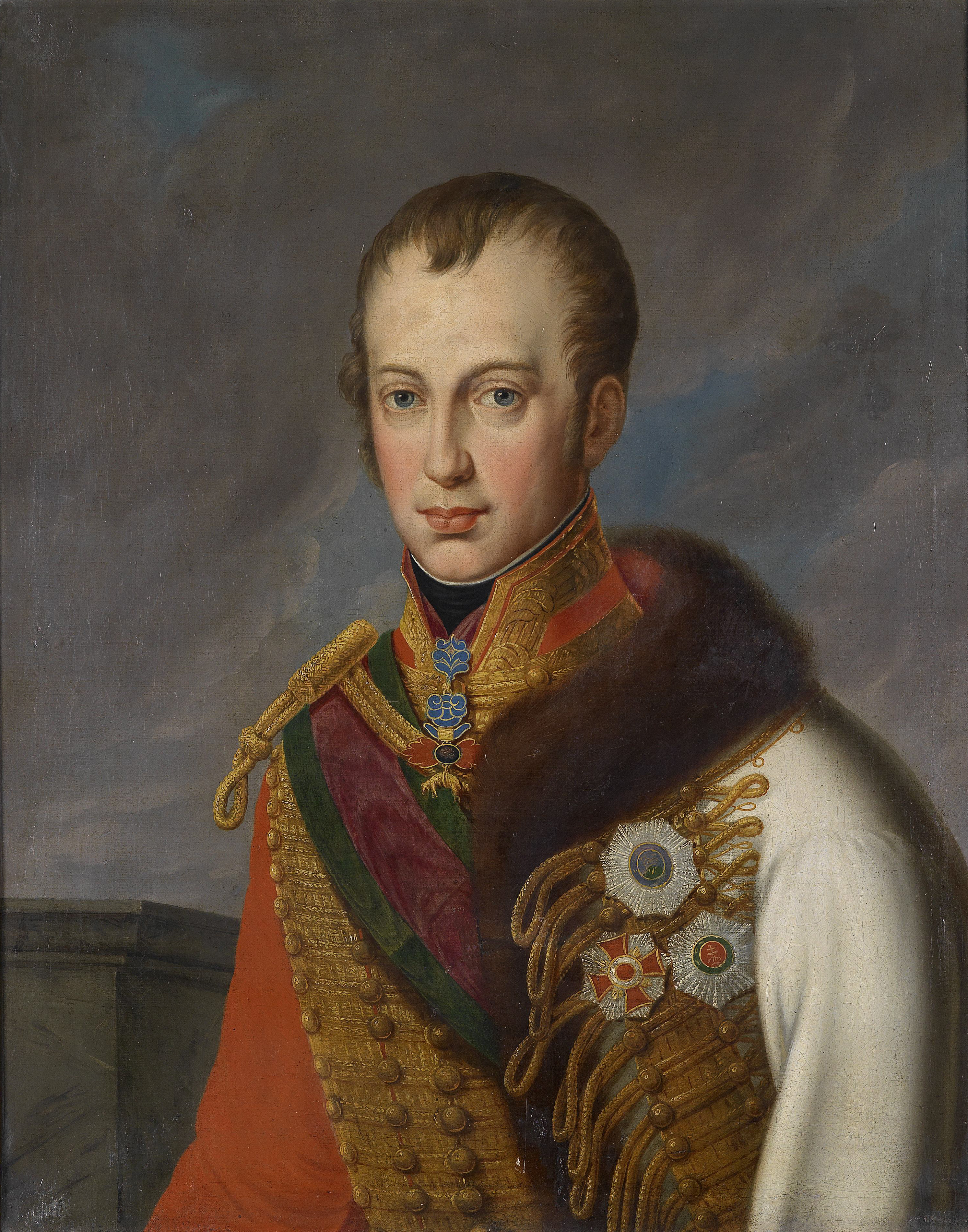 Portrait of Ferdinand I of Austria (1793-1875)